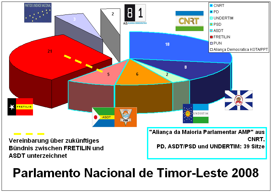 Parliament of East Timor after joining of UNDERTIM to AMP-coalition